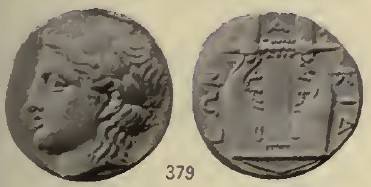 Greek coins and their parent cities (1902) Author: Ward, John, 1832-1912; Hill, George Francis, Sir, 1867-1948 Subject: Coins, Greek; Numismatics, Greek; Greece -- Description, geography; Italy -- Description and travel; Turkey -- Description and travel Publisher: London : Murray Possible copyright status: NOT_IN_COPYRIGHT Language: English Call number: AKB-0671 Digitizing sponsor: MSN Book contributor: Robarts - University of Toronto Collection: toronto Scanfactors: 7